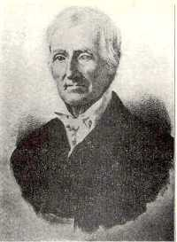 Henry Brush, politician from Ohio, United States.